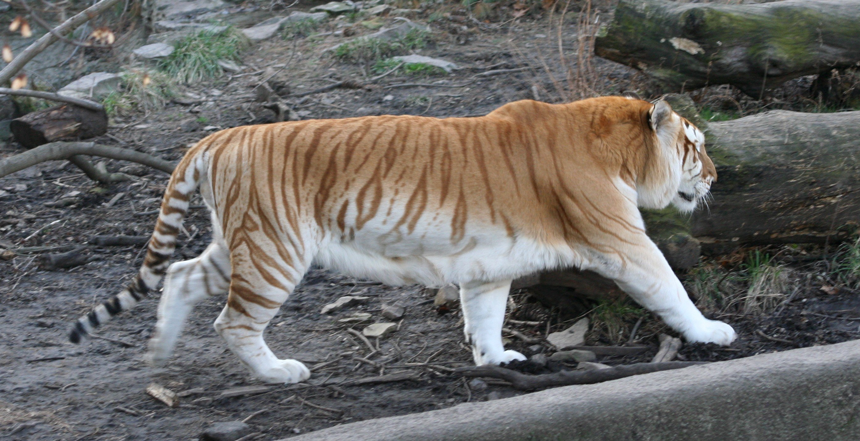 Golden tiger at the Buffalo Zoo. From wikipedia article: "The golden tabby tiger or golden tiger is an extremely rare colour variation caused by a recessive gene and now found only in captive tigers. ... There are currently believed to be less than 30 of these rare tigers in the world, but many more carriers of the gene."